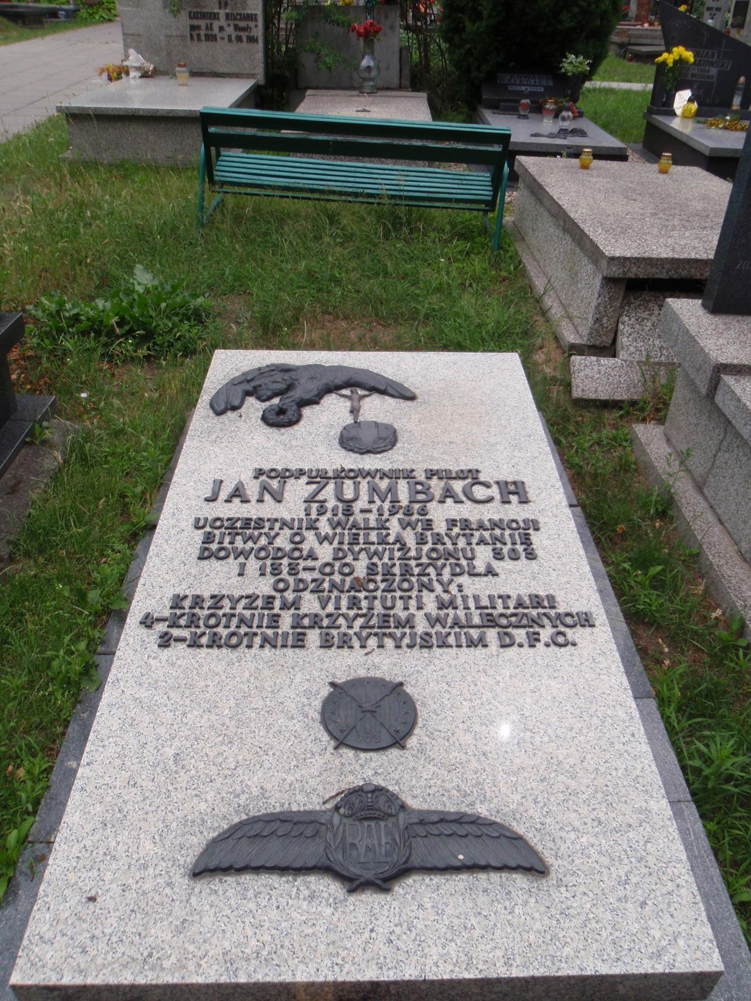 Grave of Jan Zumbach